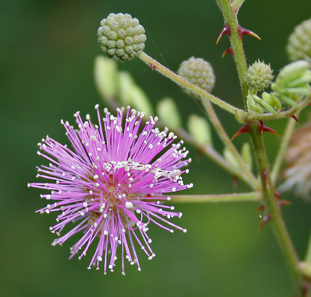 Gulabi babhul Mimosa hamanta in Hyderabad , India.